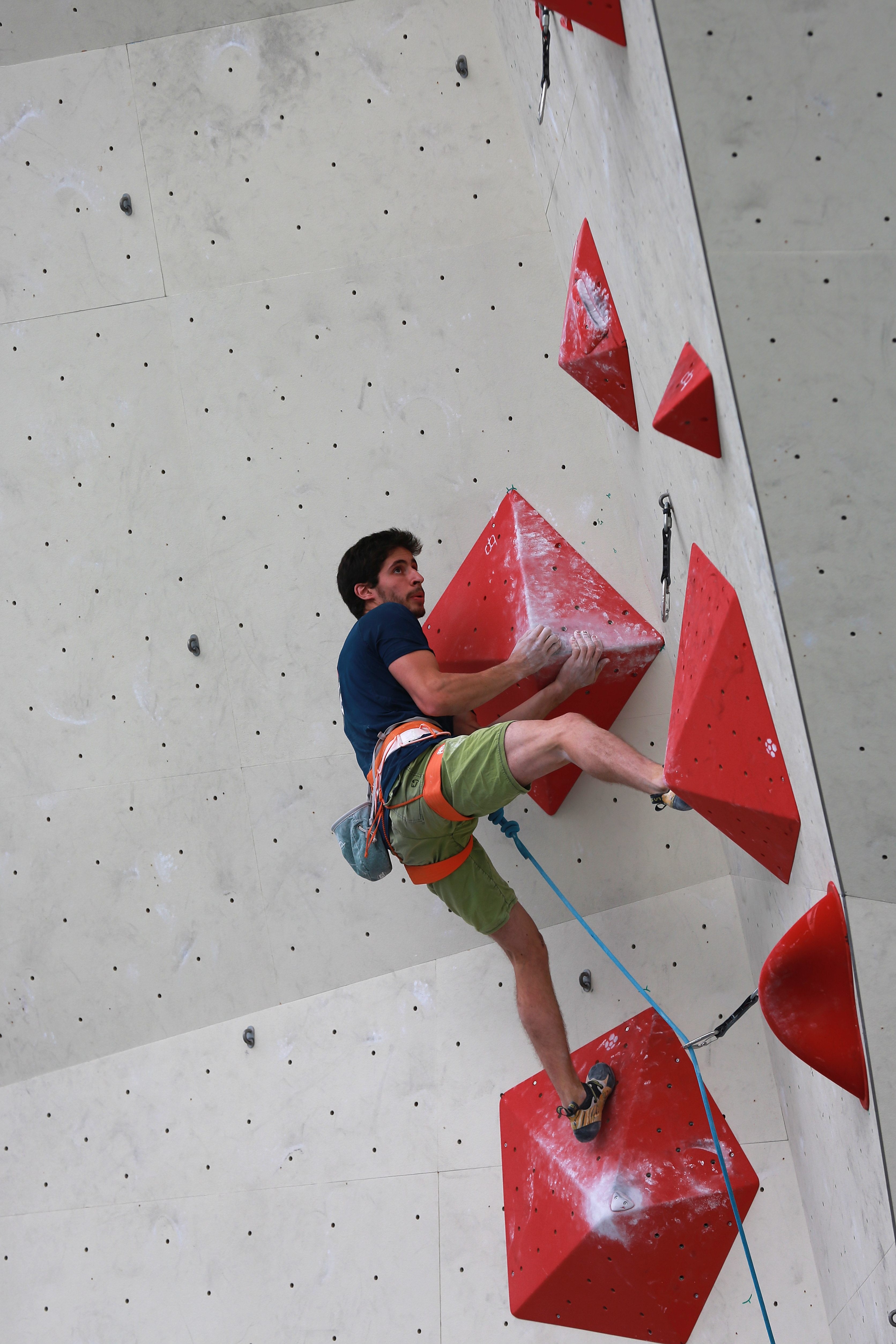 IFSC Climbing World Championships Innsbruck 2018 Qualification MEN lead 216 KHAZANOV Alex ISR